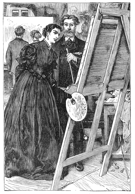 Artist: no illustrator or author listed, publisher was George Routledge and Sons of London Image Appears In: Little Snowdrop's Picture Book